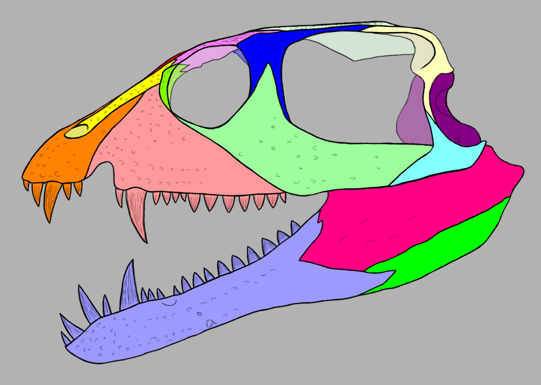 The skull of Vancleavea campi in left lateral view, based on GR 138. Bones are individually color-coded almost identically to those of by AS. The exception to this rule is that the unique neomorphic bone between the nasals of Vancleavea is colored red rather than the sclerotic ring, which is not depicted. Legend: Premaxilla Maxilla Nasal "Neomorphic bone" Prefrontal Frontal Jugal Postorbital Parietal Squamosal Quadrate Quadratojugal Surangular/articular Angular Dentary